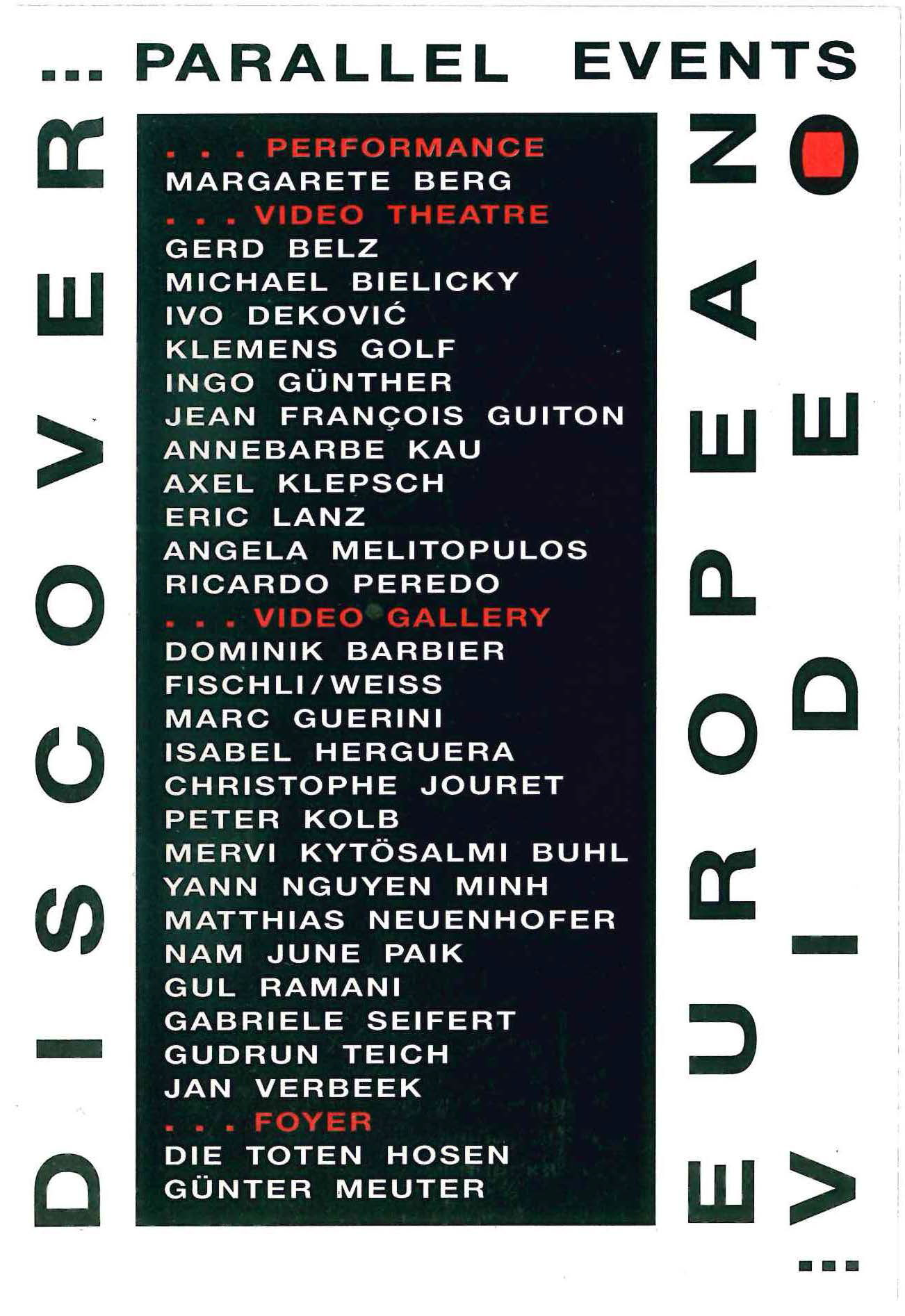 Michael Bielicky's first United States based group exhibition at the Anthology Film Archives, New York in 1990.